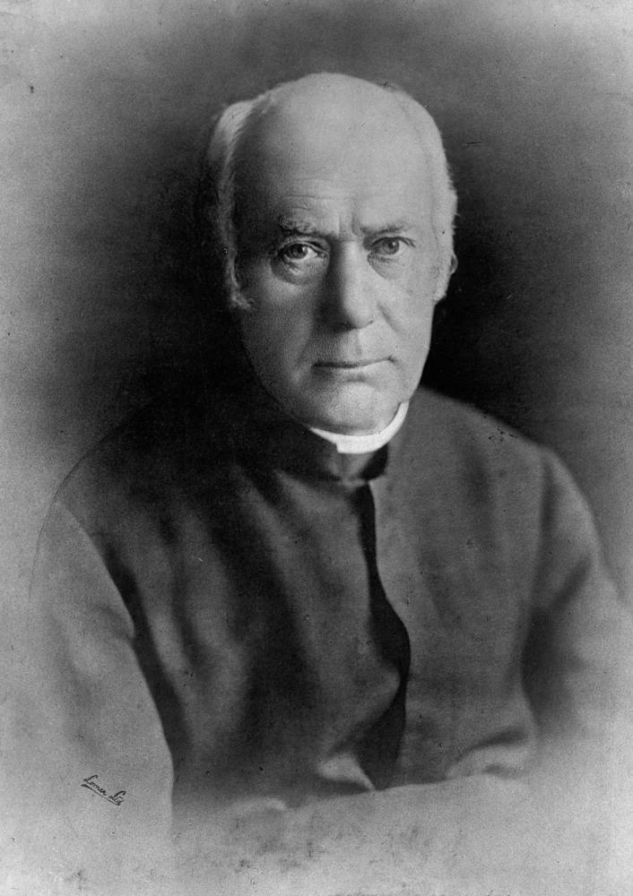 Portrait of The Reverend Brother Patrick Ambrose Treacy Founder of St. Josephs College Nudgee Queensland